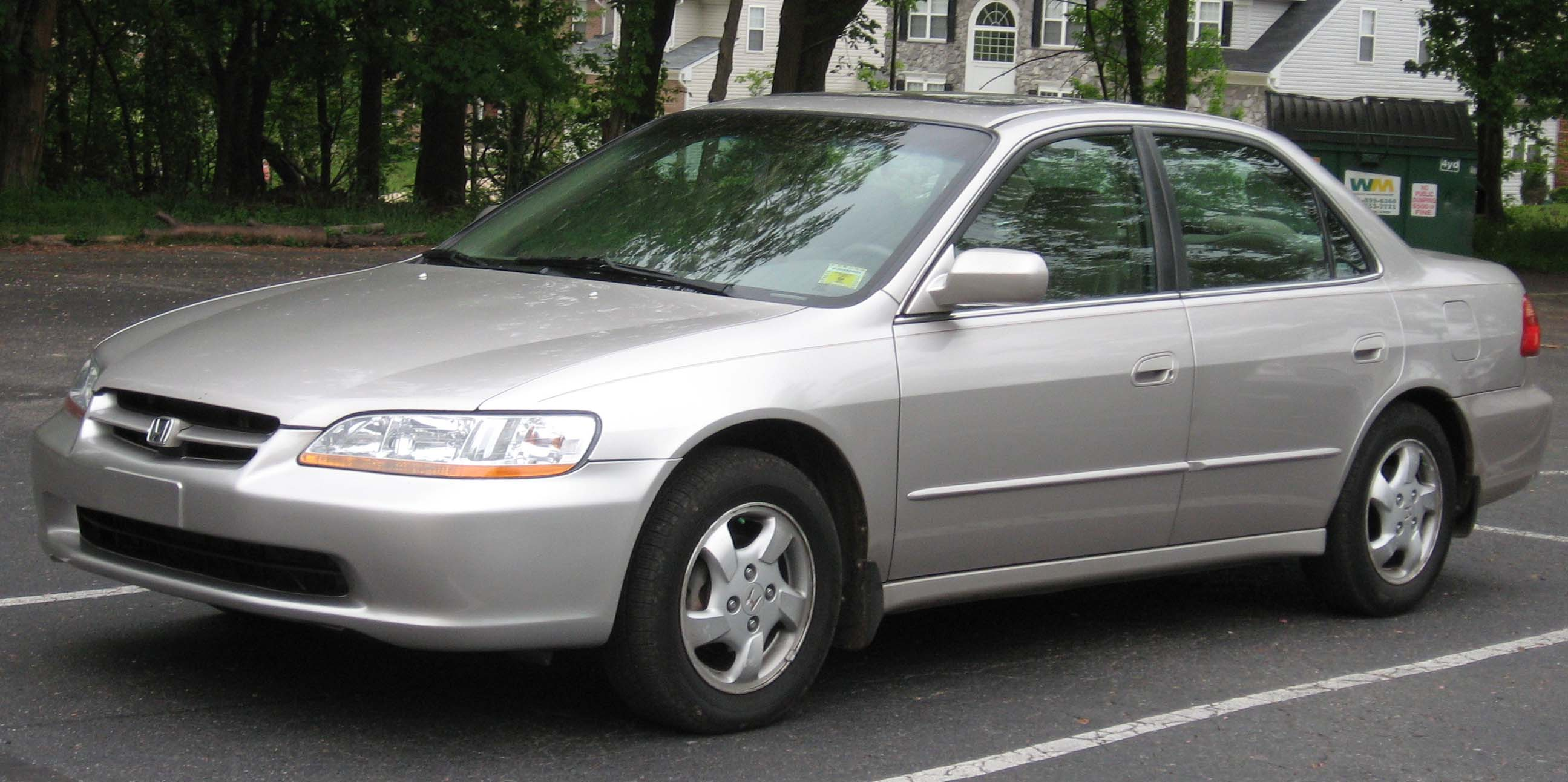 1998-2000 Honda Accord photographed in Fort Washington, Maryland, USA.